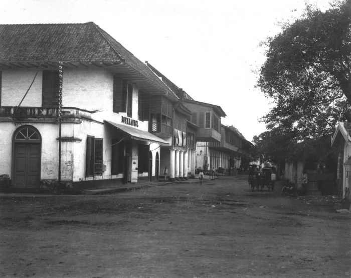 The old city of Batavia with bookshop and printer Kolff & Co. on the Pasar Pisang.